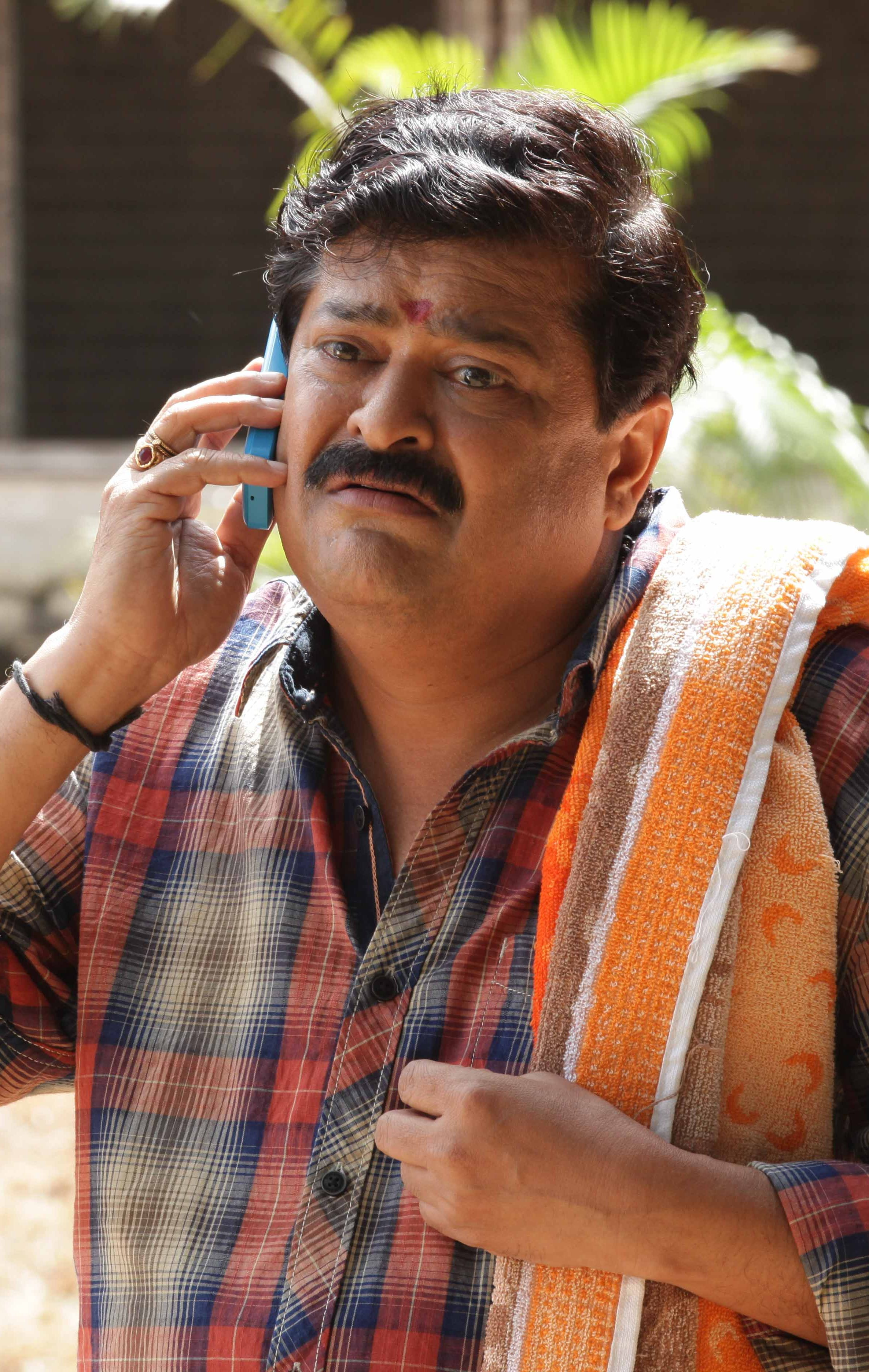 Mandya Ramesh During the shoot of Ishtakamya